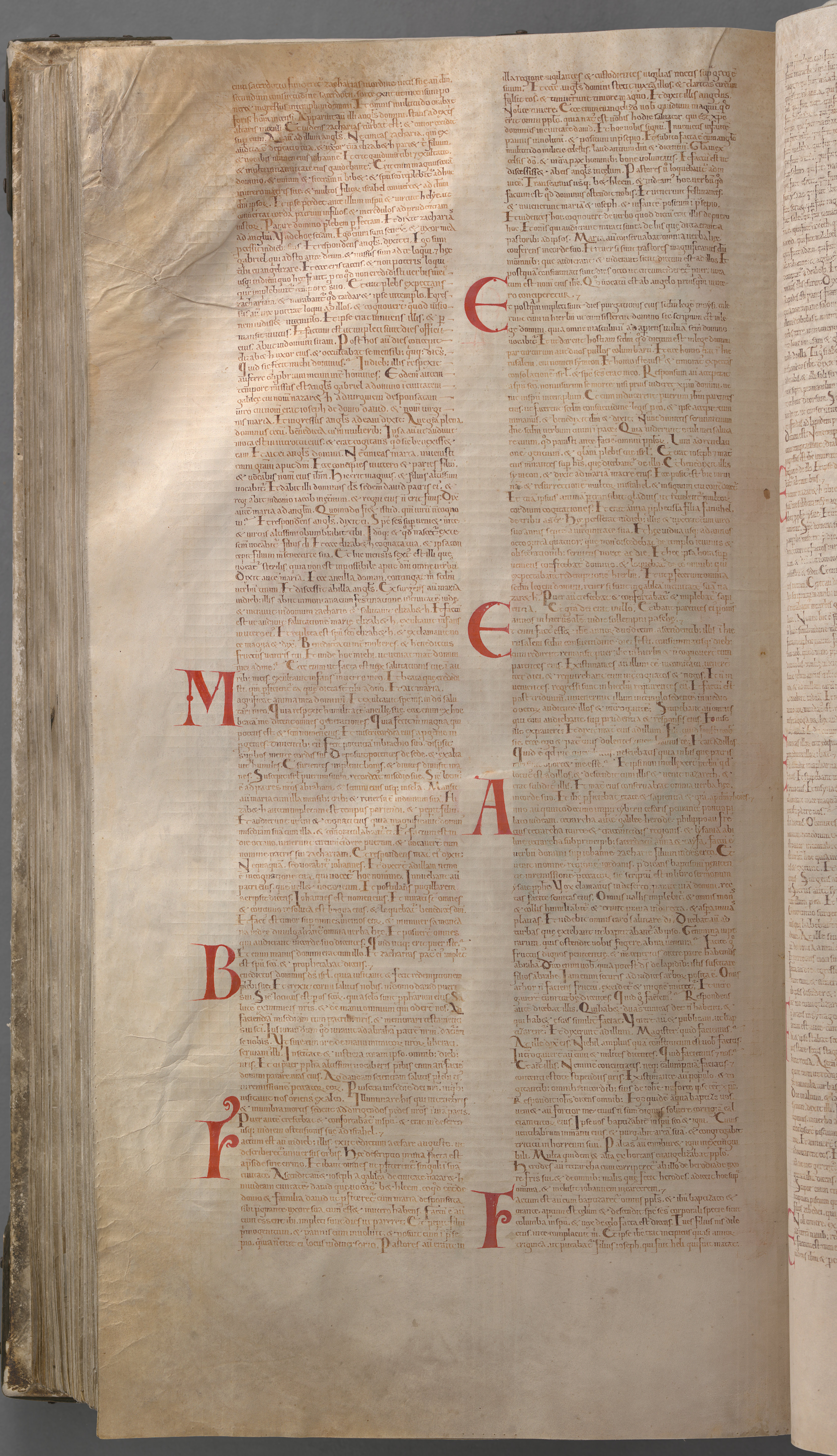 Giant Book) is the largest extant medieval manuscript in the world. It is also known as the Devil's Bible because of a large illustration of the devil on the inside and the legend surrounding its creation. It is thought to have been created in the early 13th century in the Benedictine monastery of Podlažice in Bohemia (modern Czech Republic). It contains the Vulgate Bible as well as many historical documents all written in Latin. During the Thirty Years' War in 1648, the entire collection was taken by the Swedish army as plunder, and now it is preserved at the National Library of Sweden in Stockholm, though it is not normally on display.